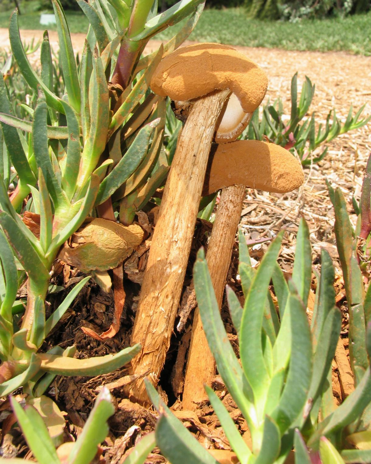 The stalked puffball fungus, species Battarrea phalloides (Dicks.) Pers. Photographed in Hermosa Beach, Los Angeles County, California. "Notes: Discovered growing along a walking path on the greenbelt that runs through Hermosa Beach, California, an urban area about 7 miles south of LAX. The greenbelt is about 500 meters from the Pacific Ocean at that point. Wood chips and mulch are added to the path about once every year, which may be source of the Battarrea Phalloides. I have not seen these mushrooms growing in that area in past years. Herbarium specimens sent to Nathan Wilson for study and safekeeping."